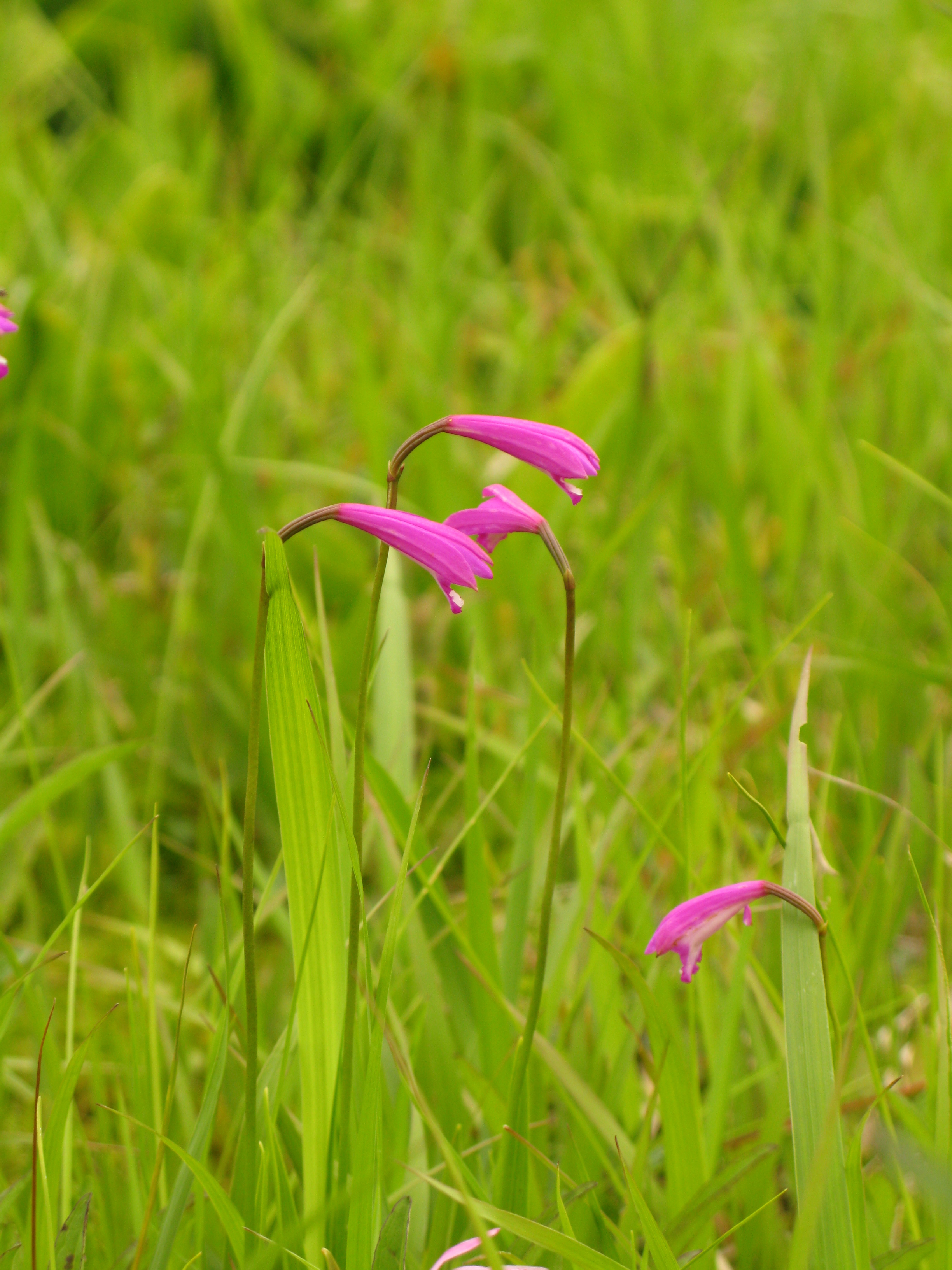 Eleorchis japonica, Aizu area, Fukushima pref., Japan